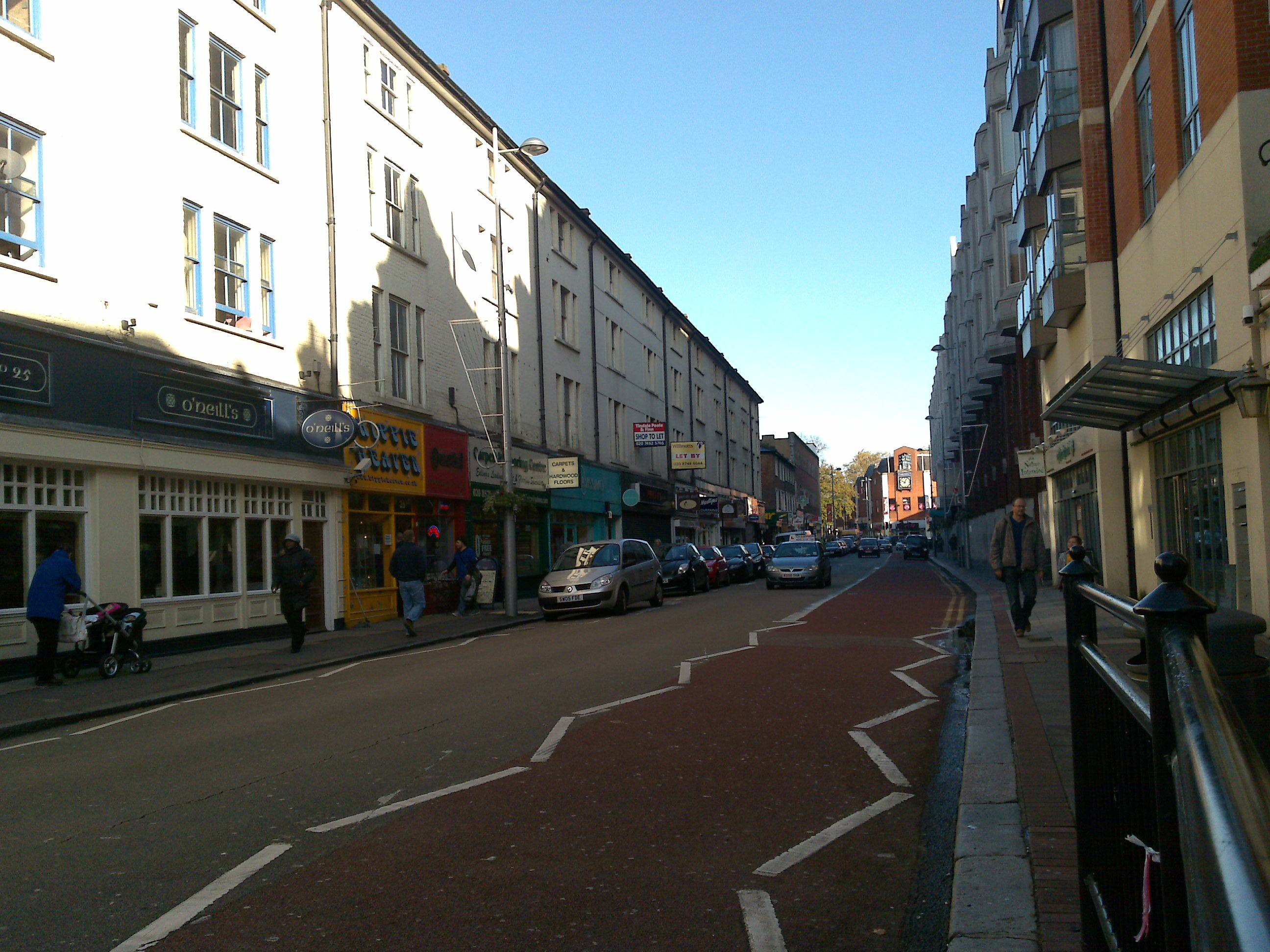 The High Street in Ealing, London, W5. 7 High Street, the building on the right hand side after the road bends, was the home of Unix System Laboratories Europe during the early 1990s.